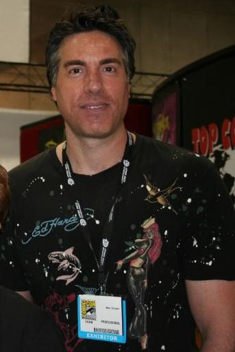 Comic book artist Marc Silvestri at Comicon.